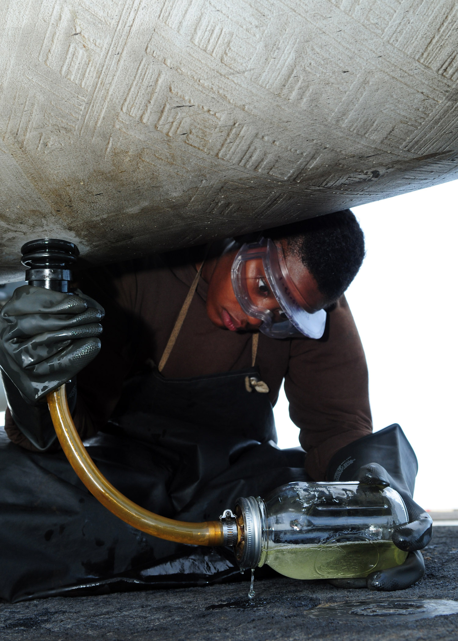 Airman Raven King takes fuel samples from an F/A-18 Hornet aboard the aircraft carrier USS Ronald Reagan (CVN 76) in the Arabian Sea on Aug. 1, 2011. The Ronald Reagan is conducting operations supporting maritime security operations and theater security cooperation efforts in the U.S. 5th Fleet area of responsibility.